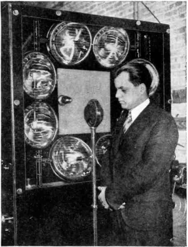 A flyins spot scanner, an early type of television camera used in mechanical scan television systems during the 1930s and its developer, Ulysis Sanabria. During the 1930s, before modern electronic-scan television broadcasting began after World War 2, hundreds of experimental stations broadcast television using this low resolution mechanical techniques. This example is designed to take "head shots" of performers talking or singing. Instead of a camera, the flying spot scanner projects an intense spot of arc light from the lens at center. The spot scans rapidly over the subject's face in a raster pattern. The light reflected from the subject's face is picked up by the eight phototubes in the dish reflectors around the periphery. The phototubes produce a signal which is a record of the brightness of the image where the spot strikes. This is the video signal which is broadcast to the receiver. Broadcasts during the 1930s had low resolution, typically a 60 line frame at 20 frames per second.